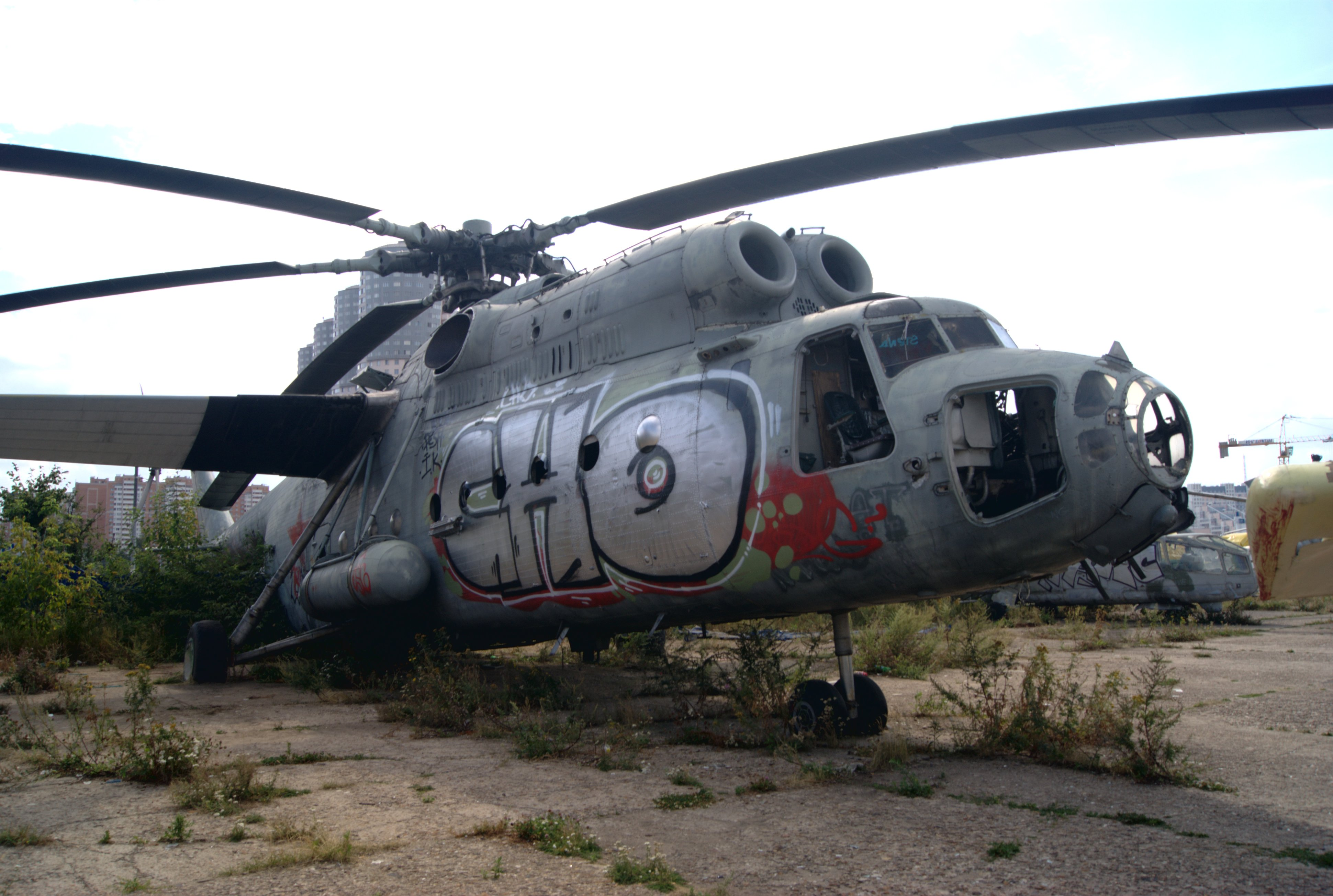 Aircraft at the Khodynka Field in Sokol (Moscow)